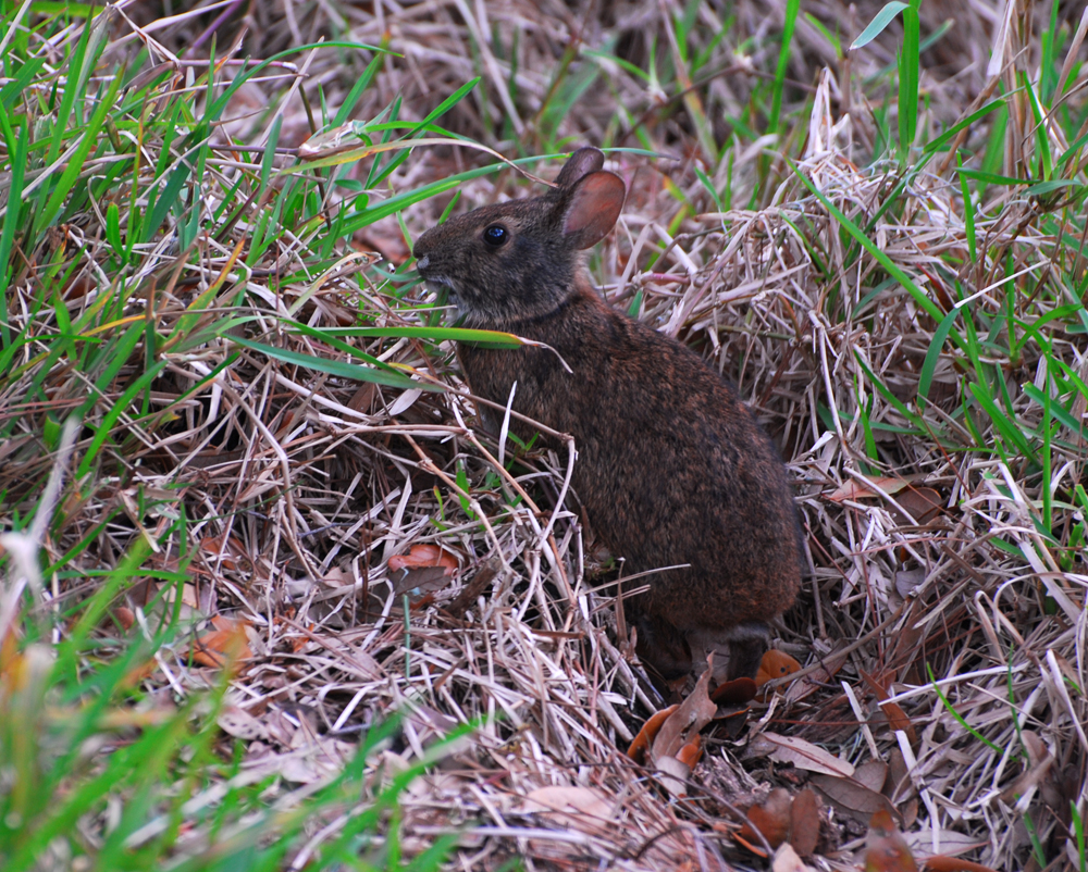 Marsh Rabbit (Sylvilagus palustris) feeding on grass